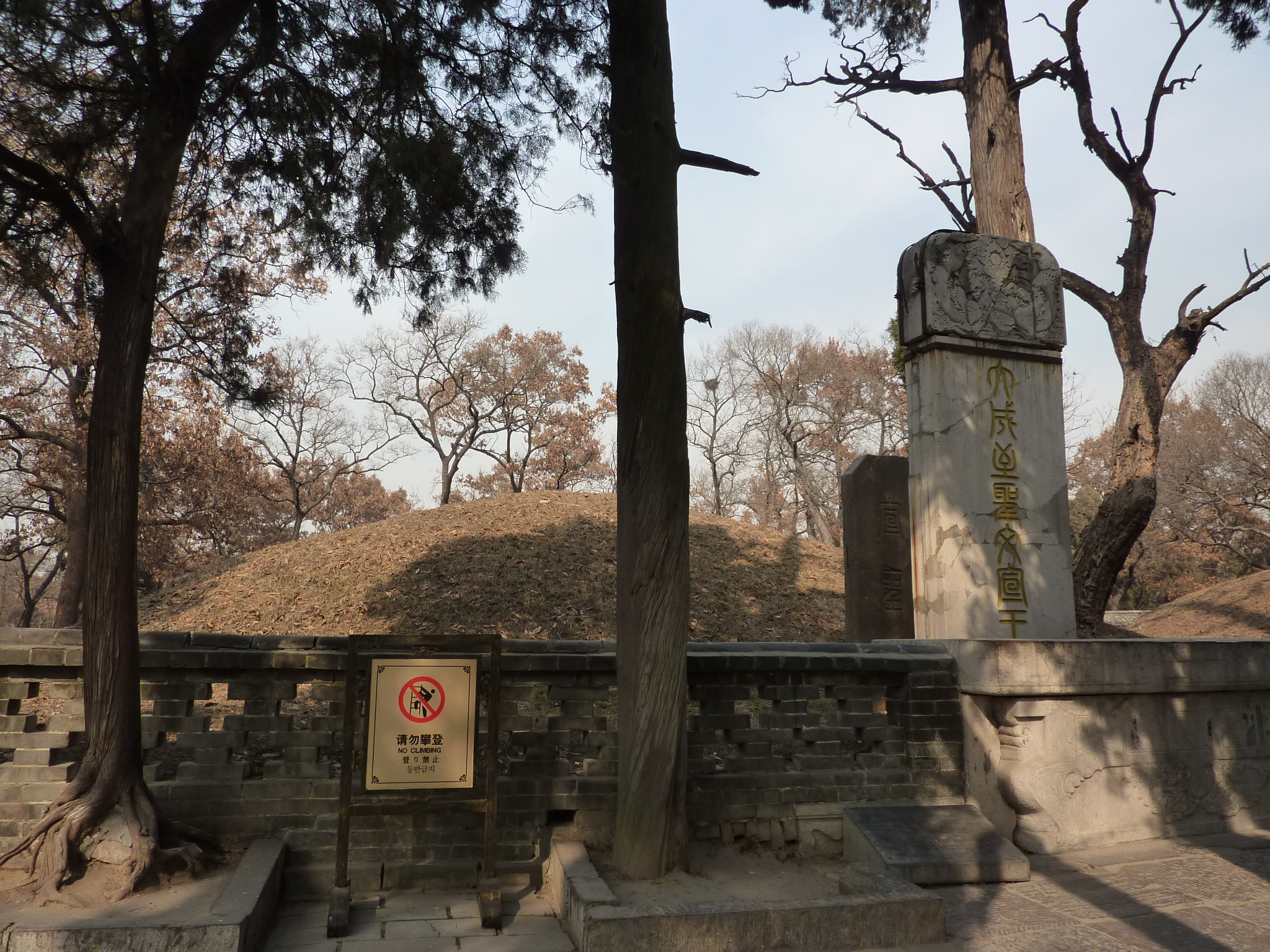 The tomb of Confucius in Kong Lin.